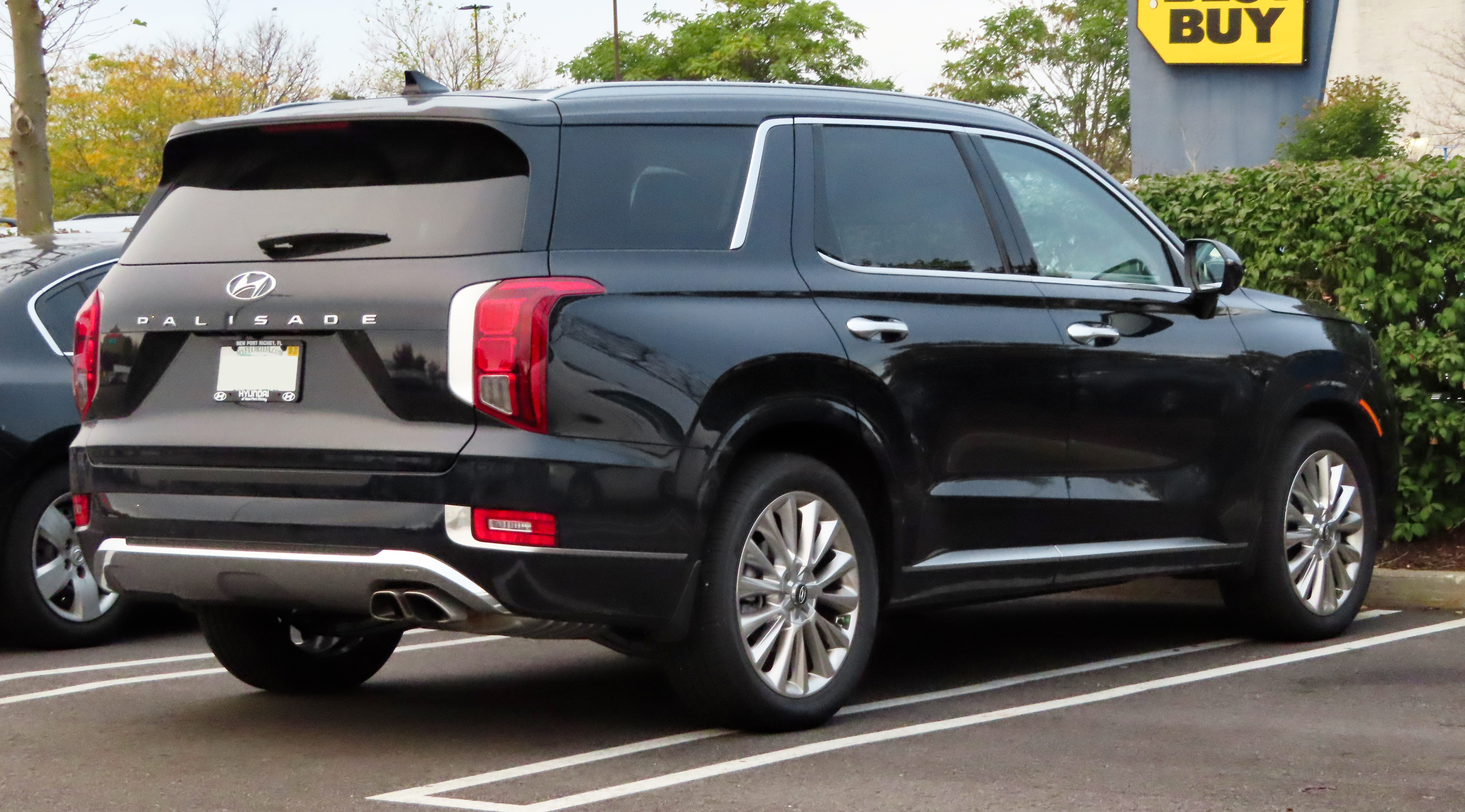 A 2020 Hyundai Palisade Limited photographed in Flushing, Queens, New York, USA